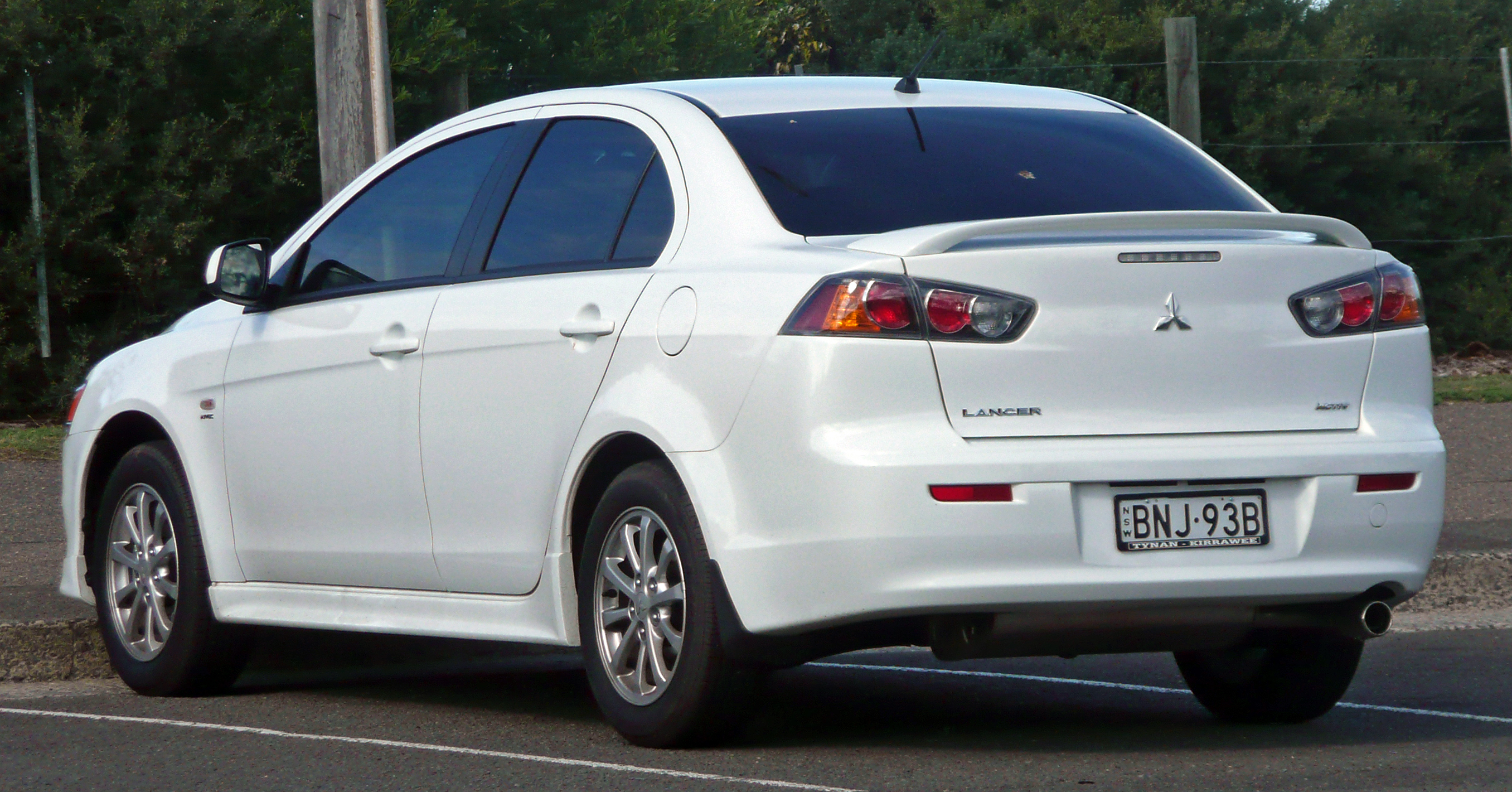 2010 Mitsubishi Lancer (CJ MY10) Activ sedan. Photographed in Cronulla, New South Wales, Australia.